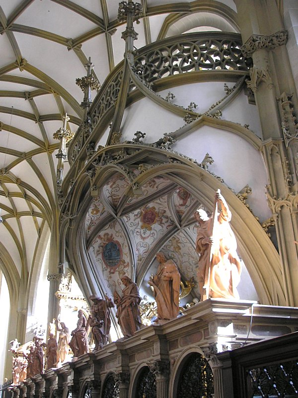 Former Benedictine monastery church St. Ulrich and Afra (Augsburg, Bavaria, Germany). Chapel of St. Simpertus. Own photo, March 2007